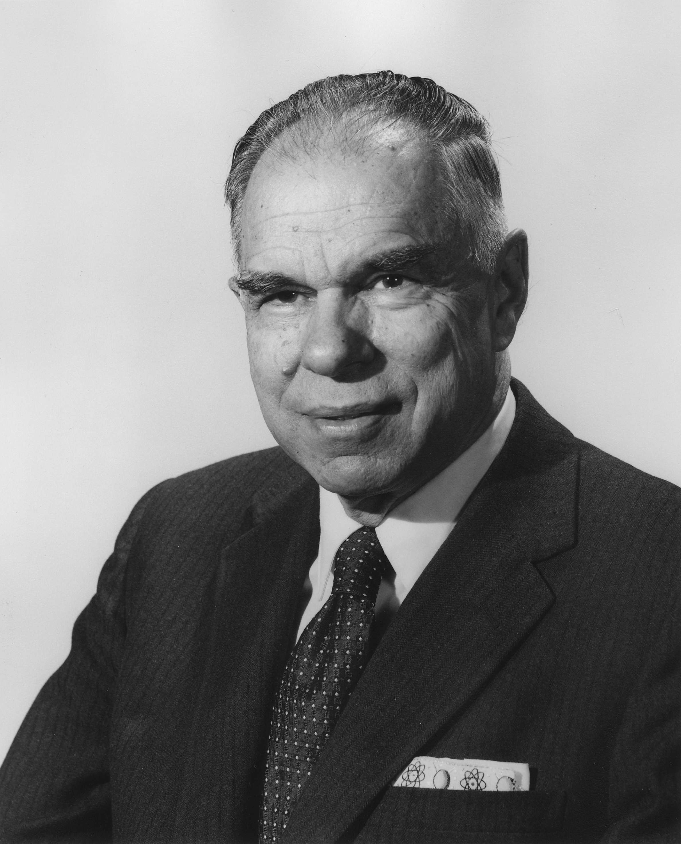 "Physicist Glenn T. Seaborg, atomic pioneer and Commissioner of the Atomic Energy Commission., ca. 1964"